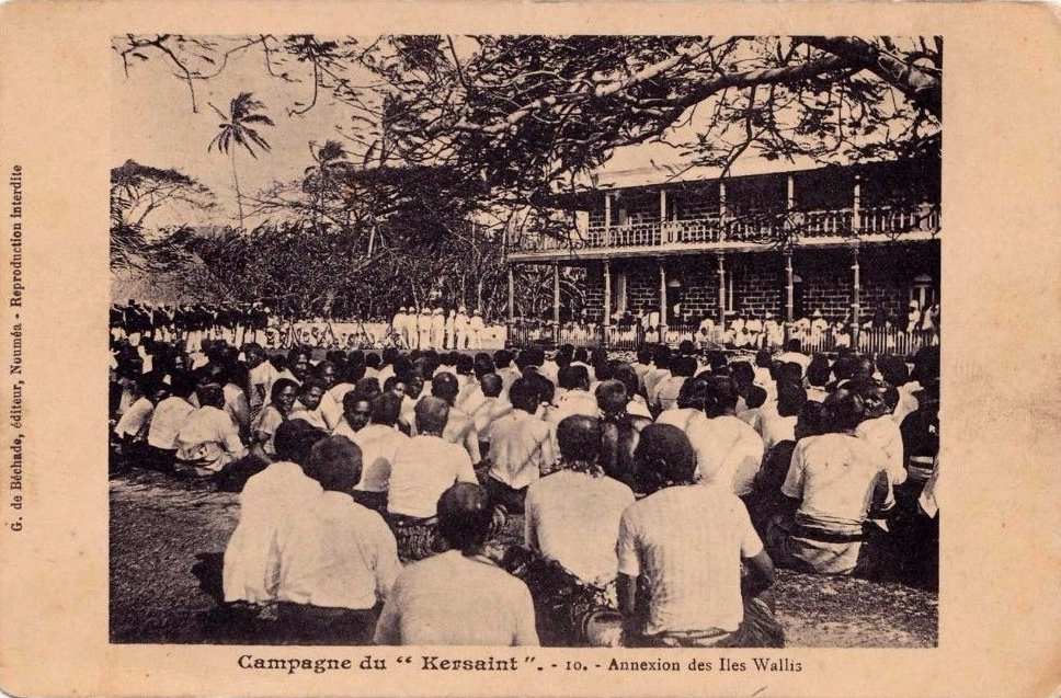 Photograph taken in 1913 showing the "annexation" ceremony of Wallis island. Responding to the Lavelua (King of Wallis island), officers of the French ship "Kersaint" raise the French flag and fire a salvo on June 12th 1913. But the annexation had no lasting effect and was rejected by France in 1922.